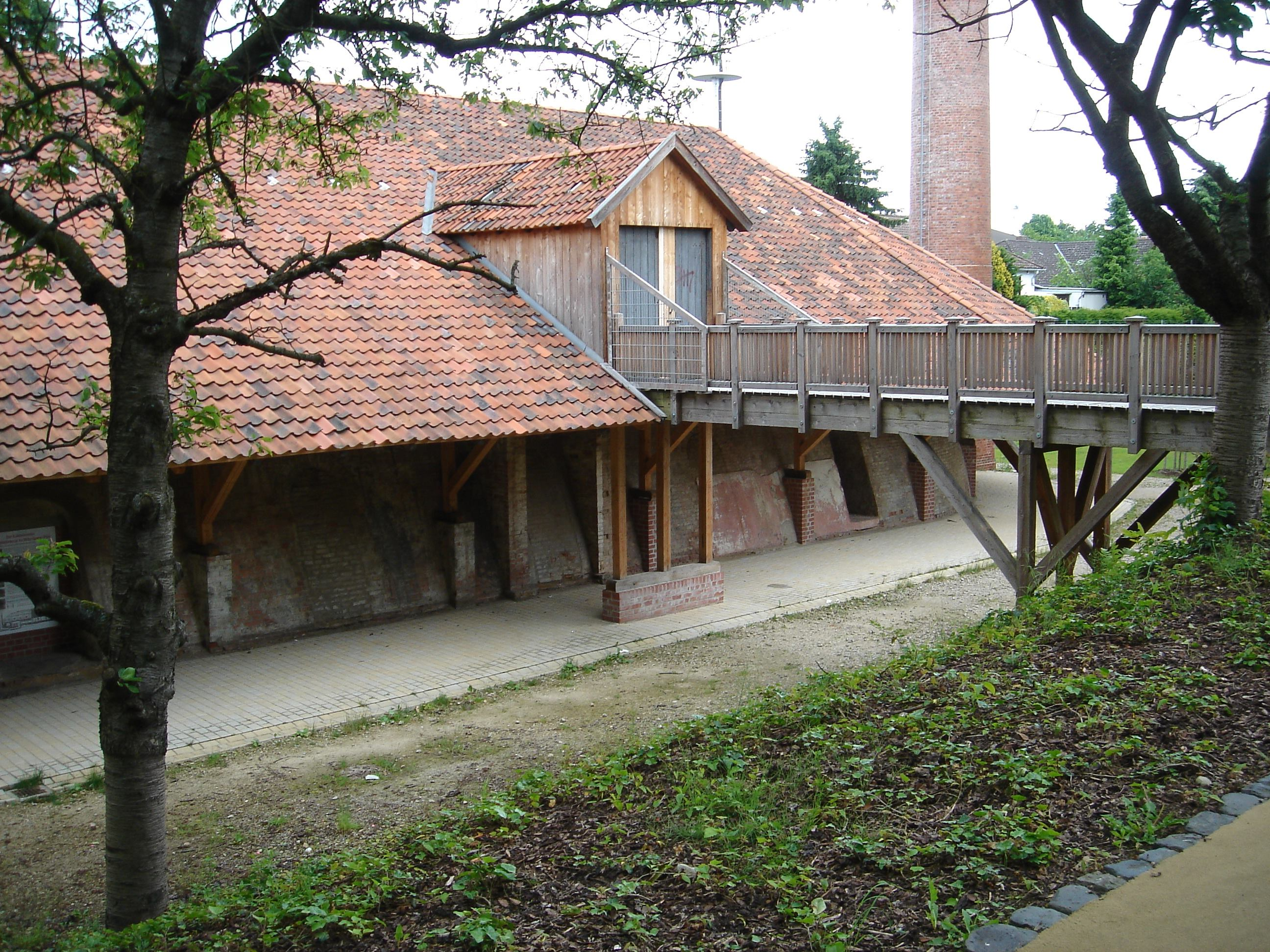 Kalkbrennofen, Willy-Spahn-Park